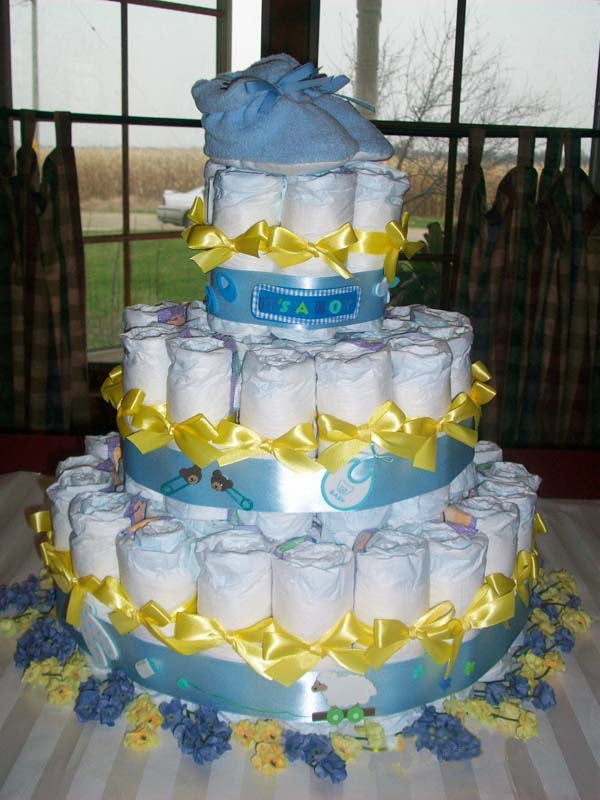 Baby nappy cake with baby booties and ribbon